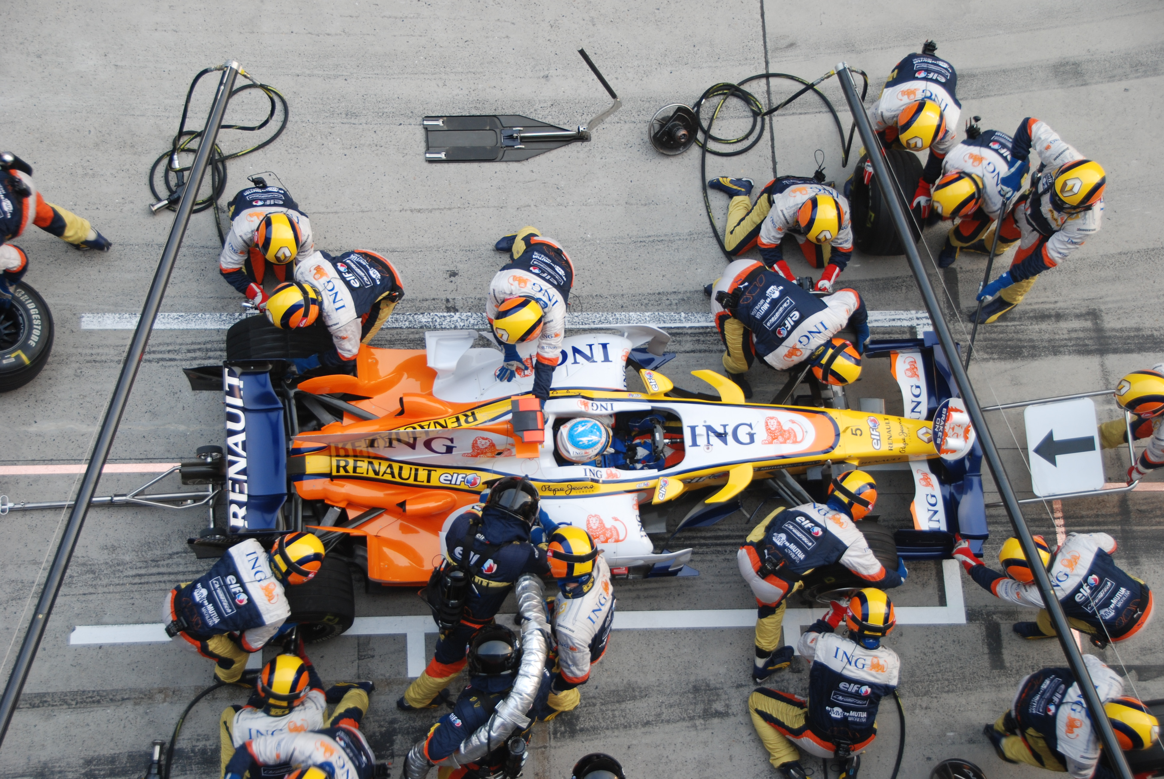 Pitstop underway for Fernando Alonso at 2008 Chinese Grand Prix